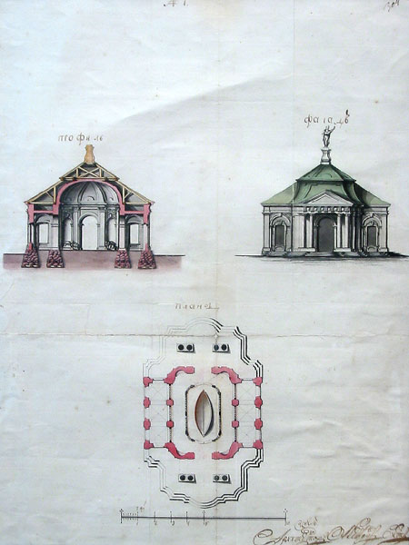 The project of stone pavilion for Boats of Peter I storage in Peter & Paul Fortress territory. 1761. year plan of the peter and paul fortress in Saint Petersburg. The plan, facade, section. Architect A.F.Wist. A watercolour. Russian State Archive of Ancient Acts (in Moscow).